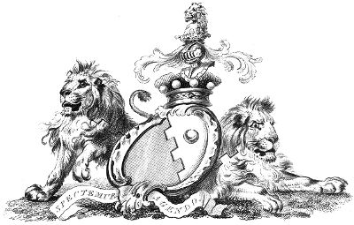 Boyle arms: Per bend embattled argent and gules a crescent for difference. Coat of Arms of Henry Boyle, 1st Baron Carleton